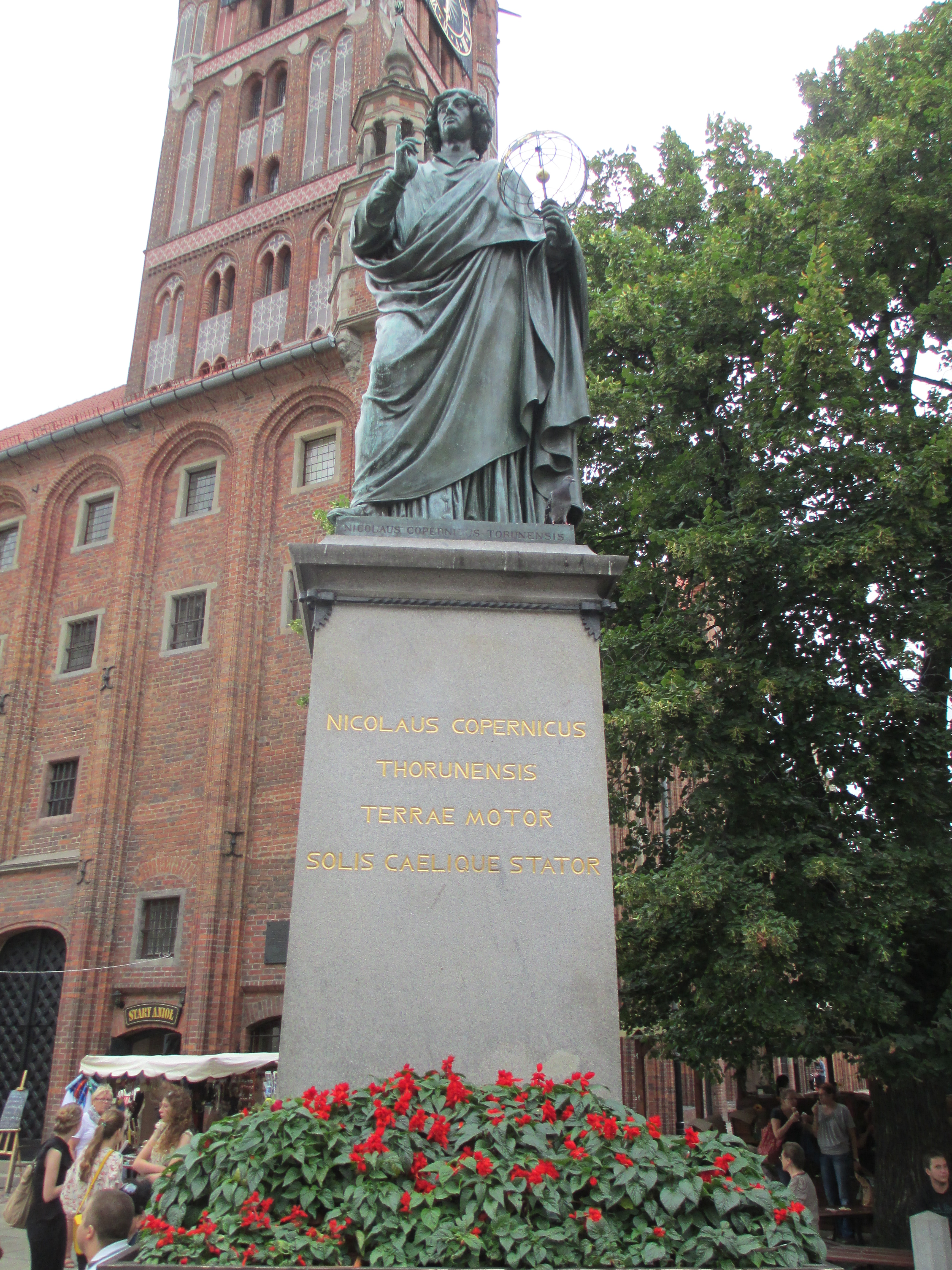 statue of copernicus in torun